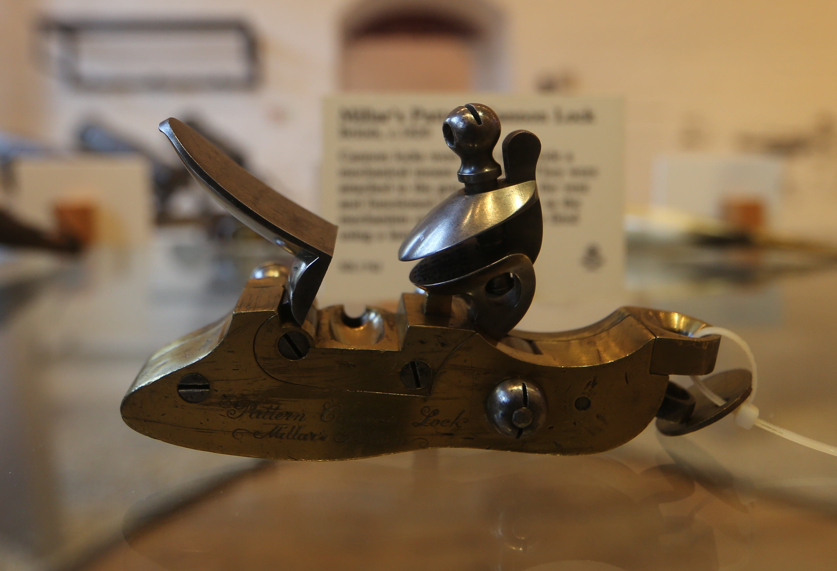 Photo of a 1820s era cannon lock/ Gunlock. Specifically it is a millar's pattern gunlock